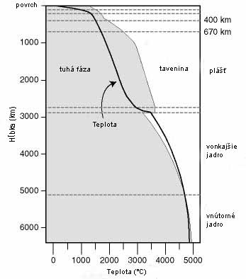 Earth Geothermal Curve ???